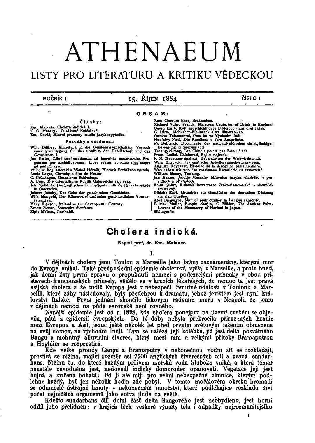 Magazine Aetheneum 1884, front page